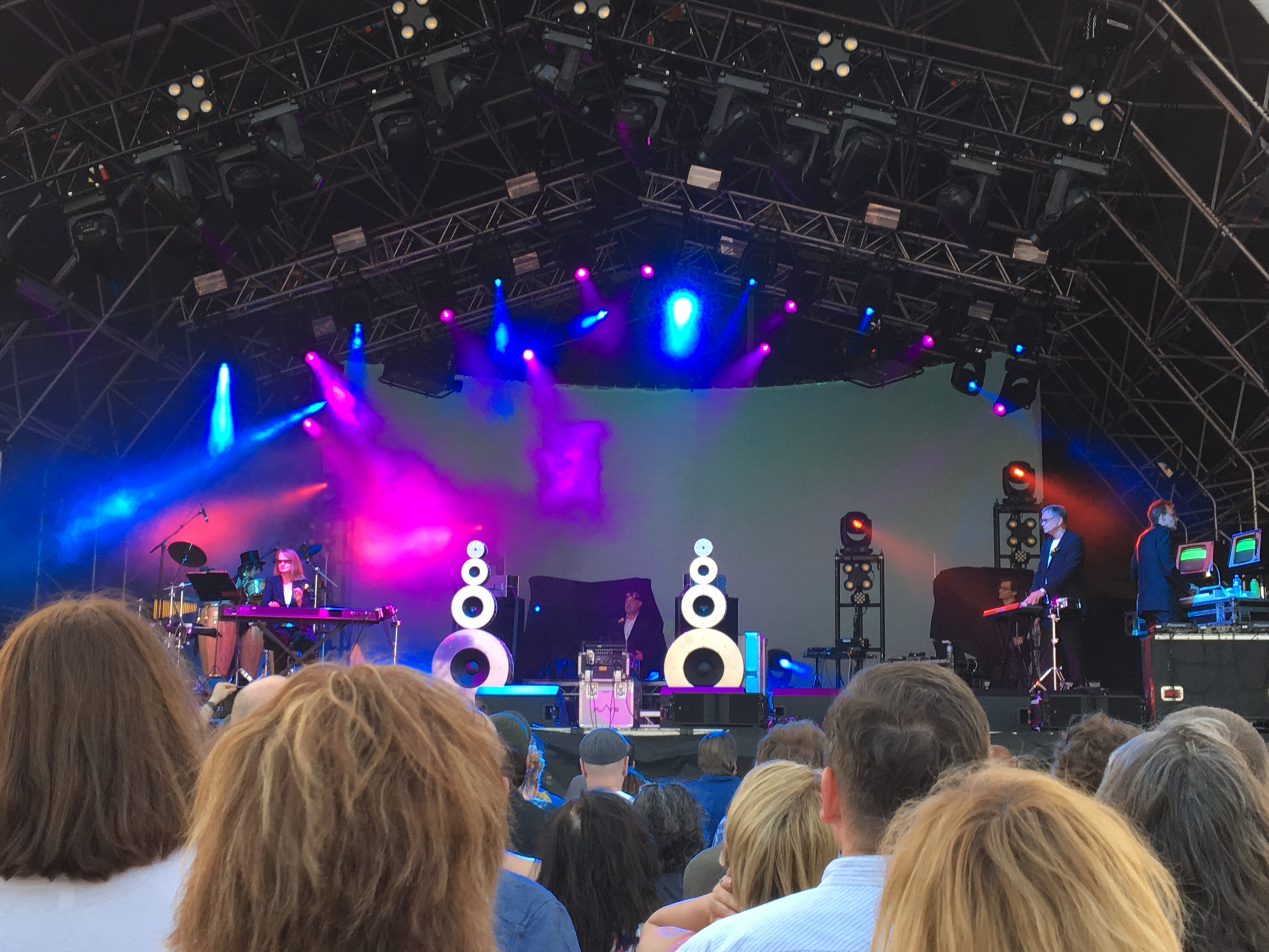 Shows the band Art of Noise playing on state at the Liverpool Sound City music festival on 25th May 2017, for the first time in approximately 17 years.